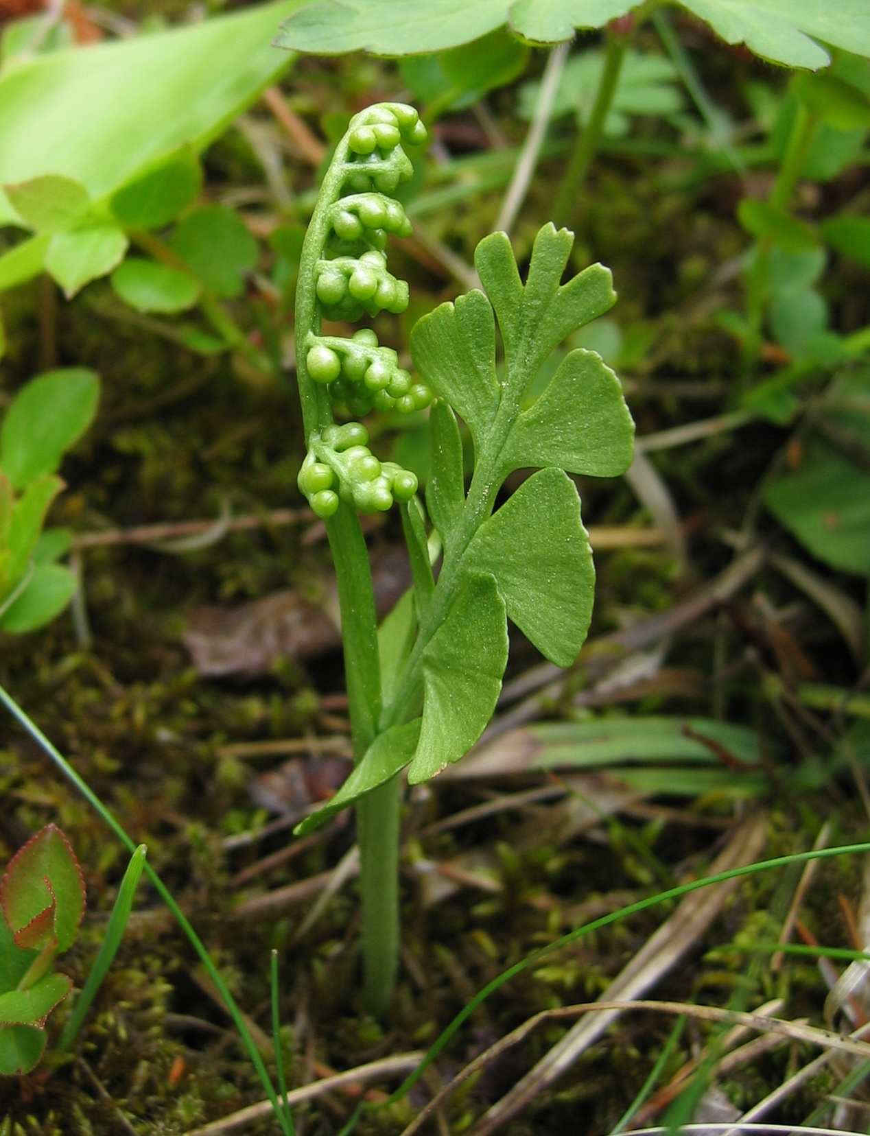 Noidanlukko (Botrychium_lunaria) in the Turku archipelago in Finland.